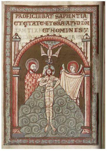 It is one page from Gold Codex of Gniezno, artwork from end of 11th century written by gold.